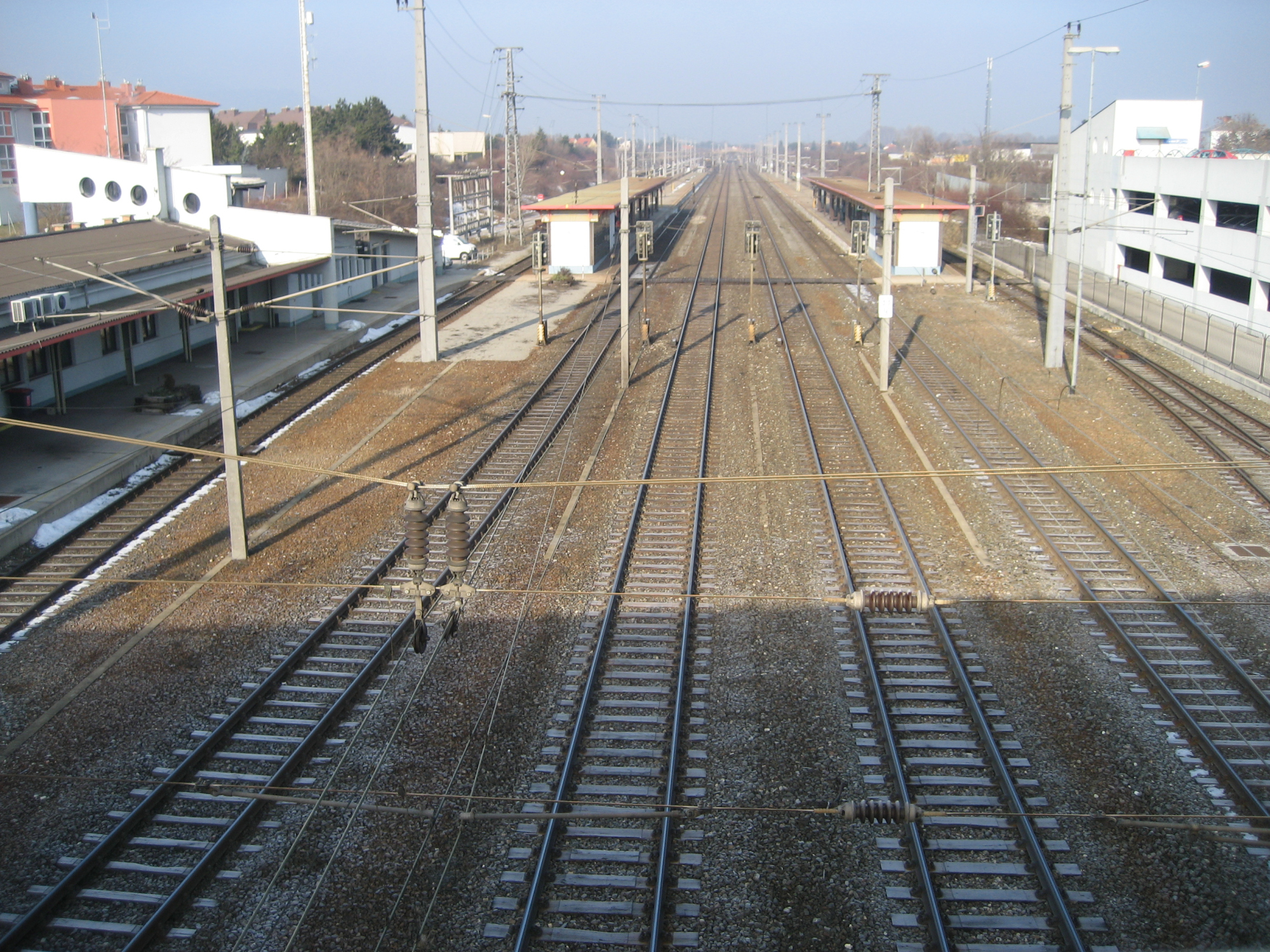 Train station Leobersdorf in Lower Austria